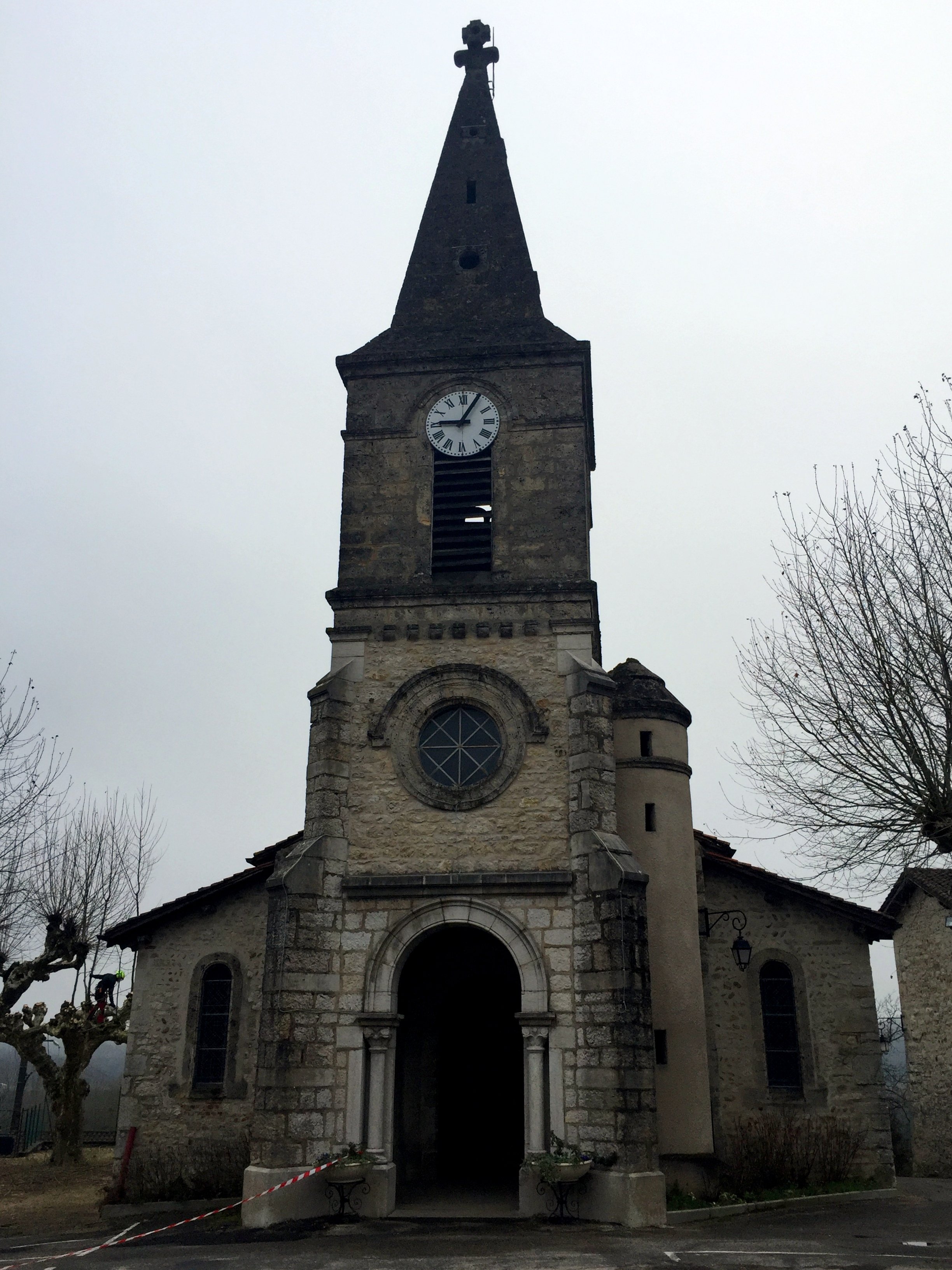 This photograph was taken with an iPhone 6